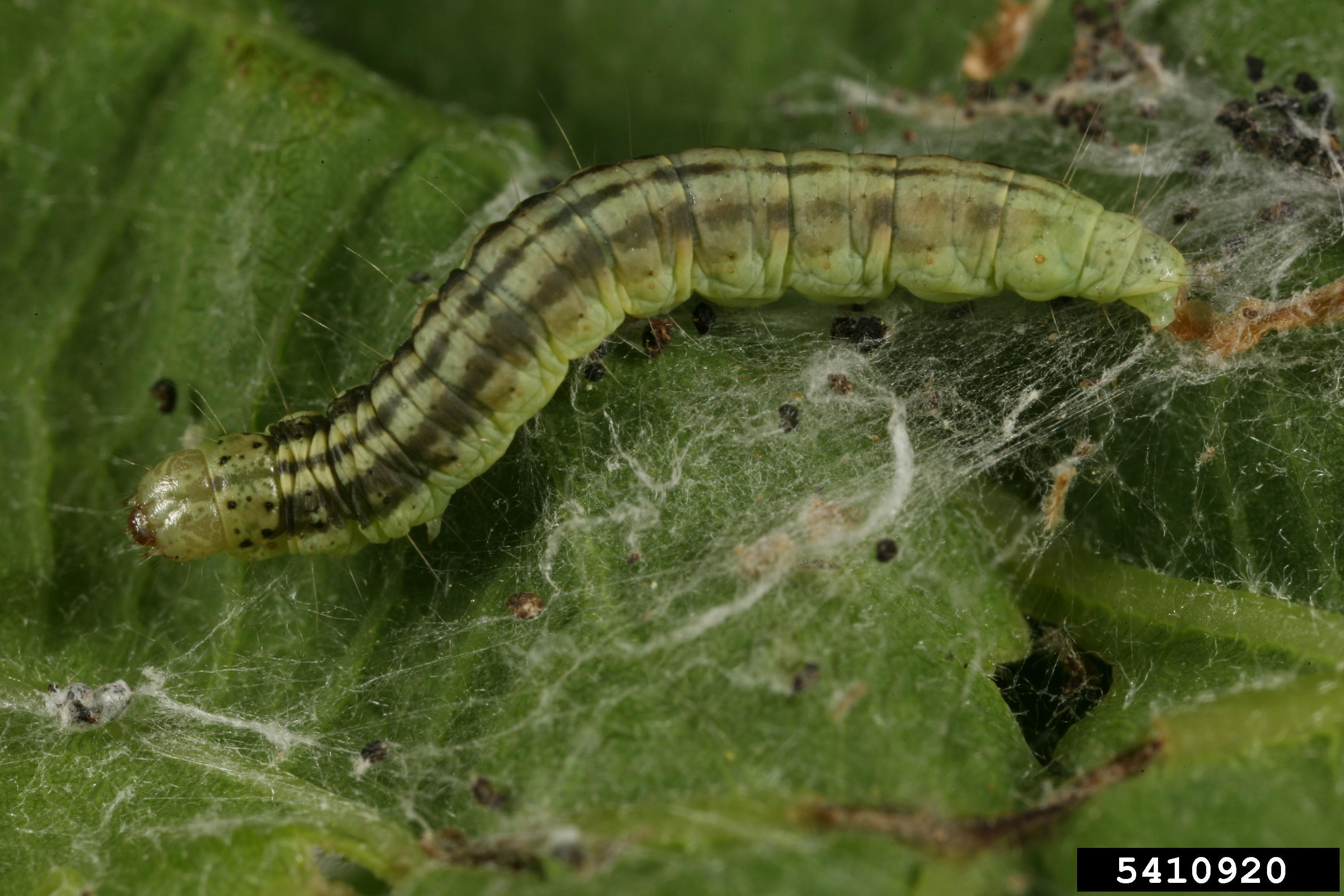 Acrobasis repandana (Fabricius, 1798) Host: oak (Quercus spp. L.) Descriptor: Larva(e) Image location: Hungary Image type: Field